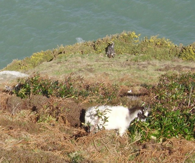 The cliffs below the coast path at Hollerday Hill Wild goats graze all around this area.